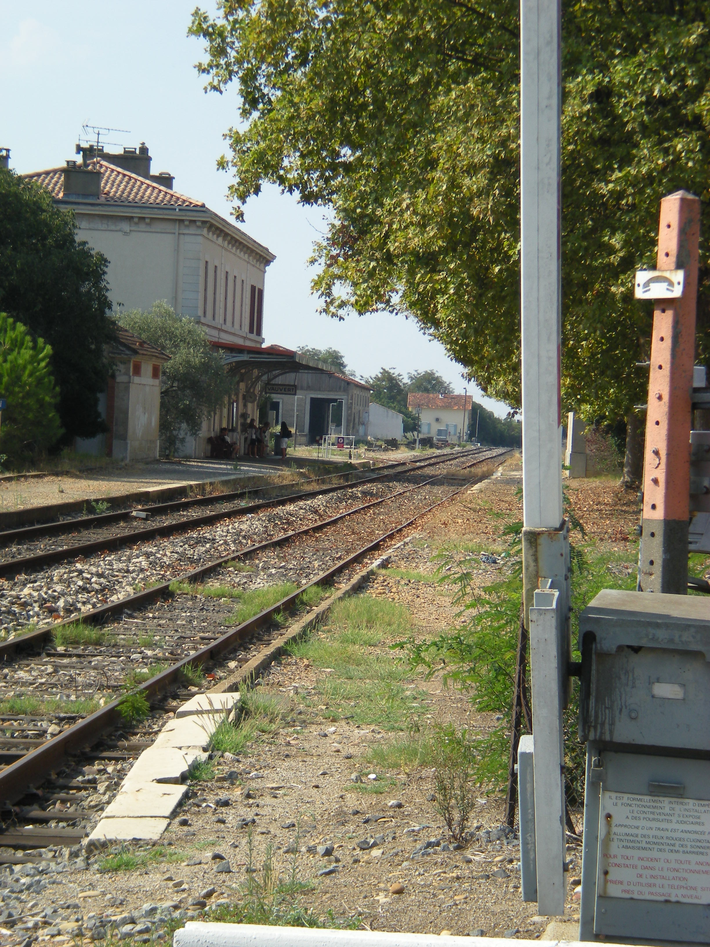 Photo de la gare SNCF de Vauvert